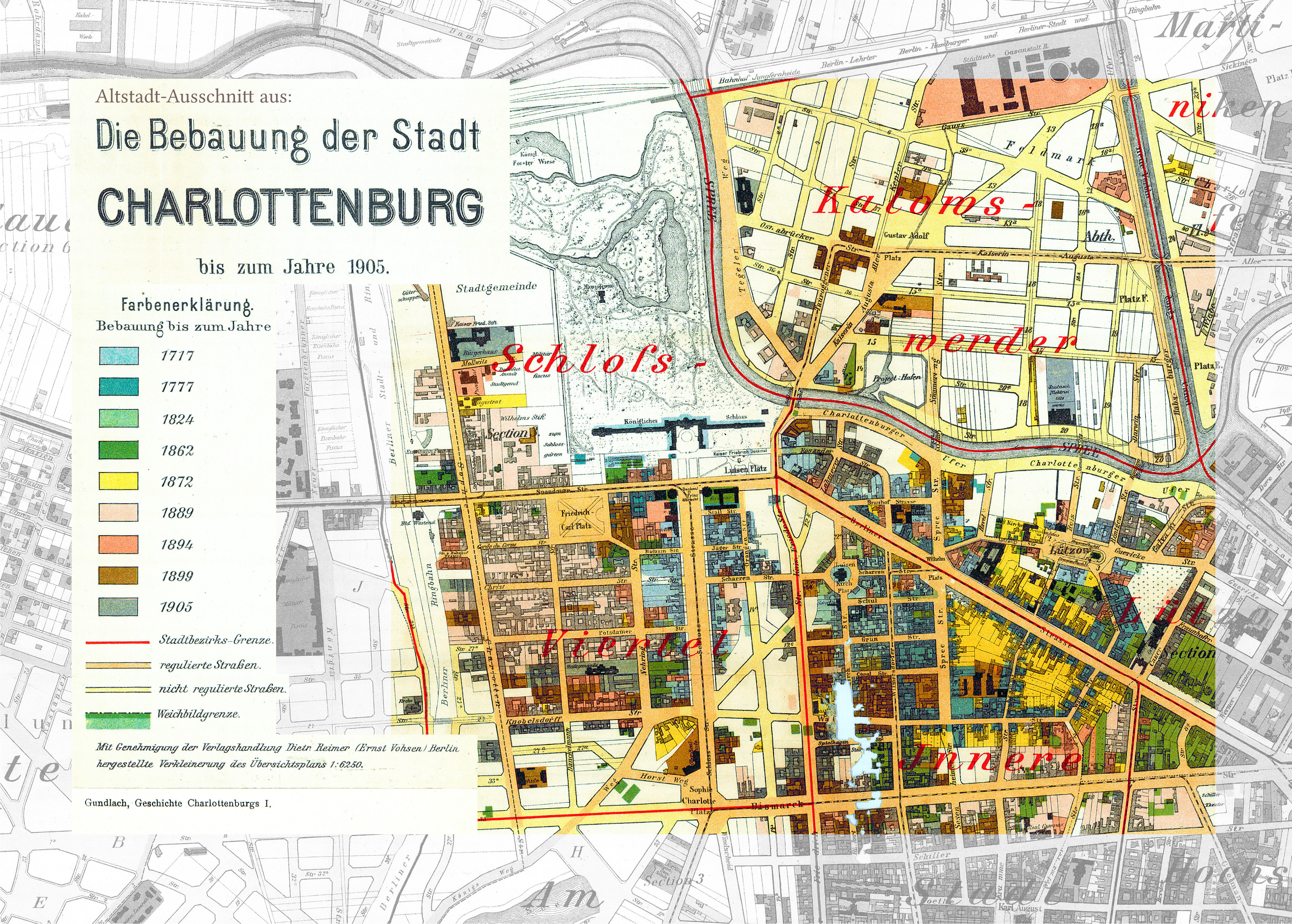 Charlottenburg – The the buildings’ ages, map-cutout historical centre, 1905